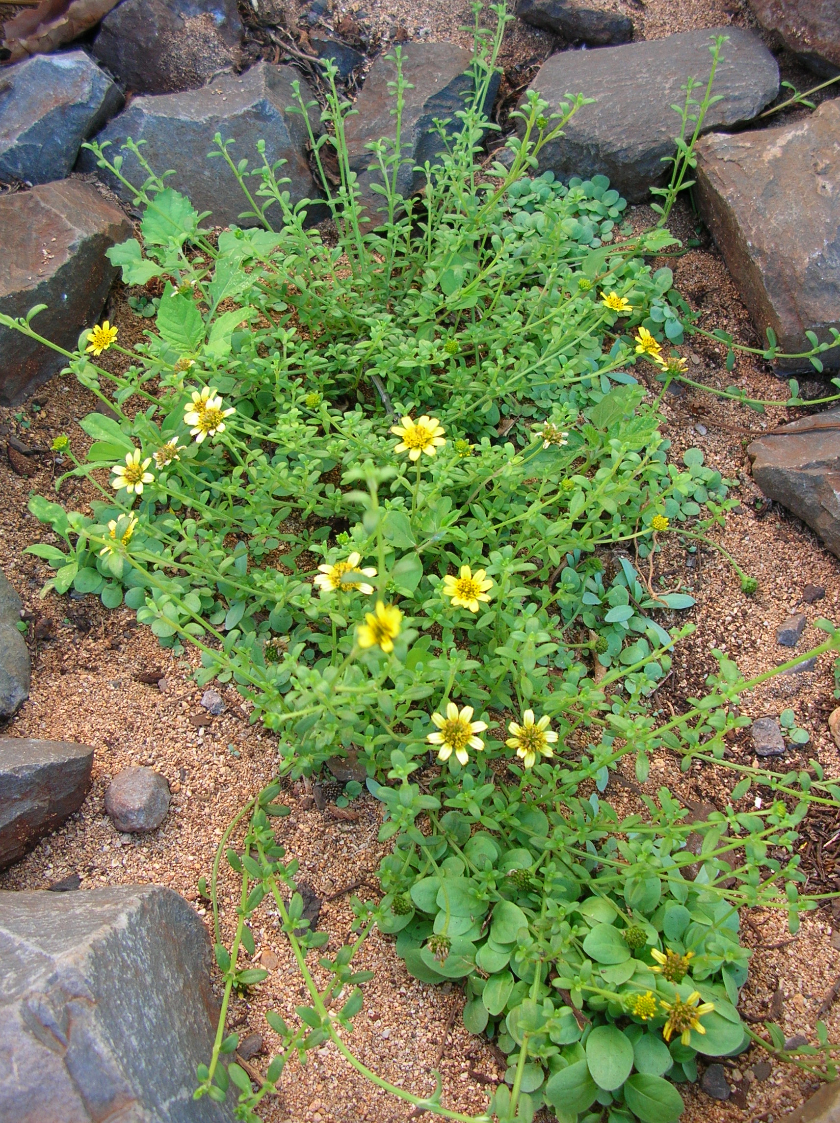 Melanthera integrifolia (flowers). Location: Maui, Kanaha Beach